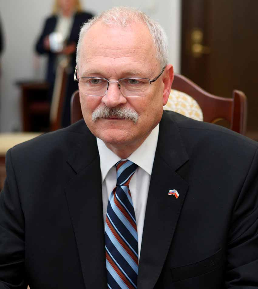 President of Slovakia Ivan Gašparovič in the Polish Senate. From the 6th to the 8th of June 2008, the Slovak President Ivan Gašparovič, with his wife Silvia, paid an official visit to the Republic of Poland. more info